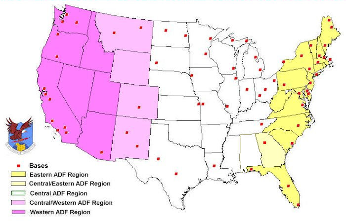 Air Defense force Regions of the USAF Air Defense Command (1949-1960)